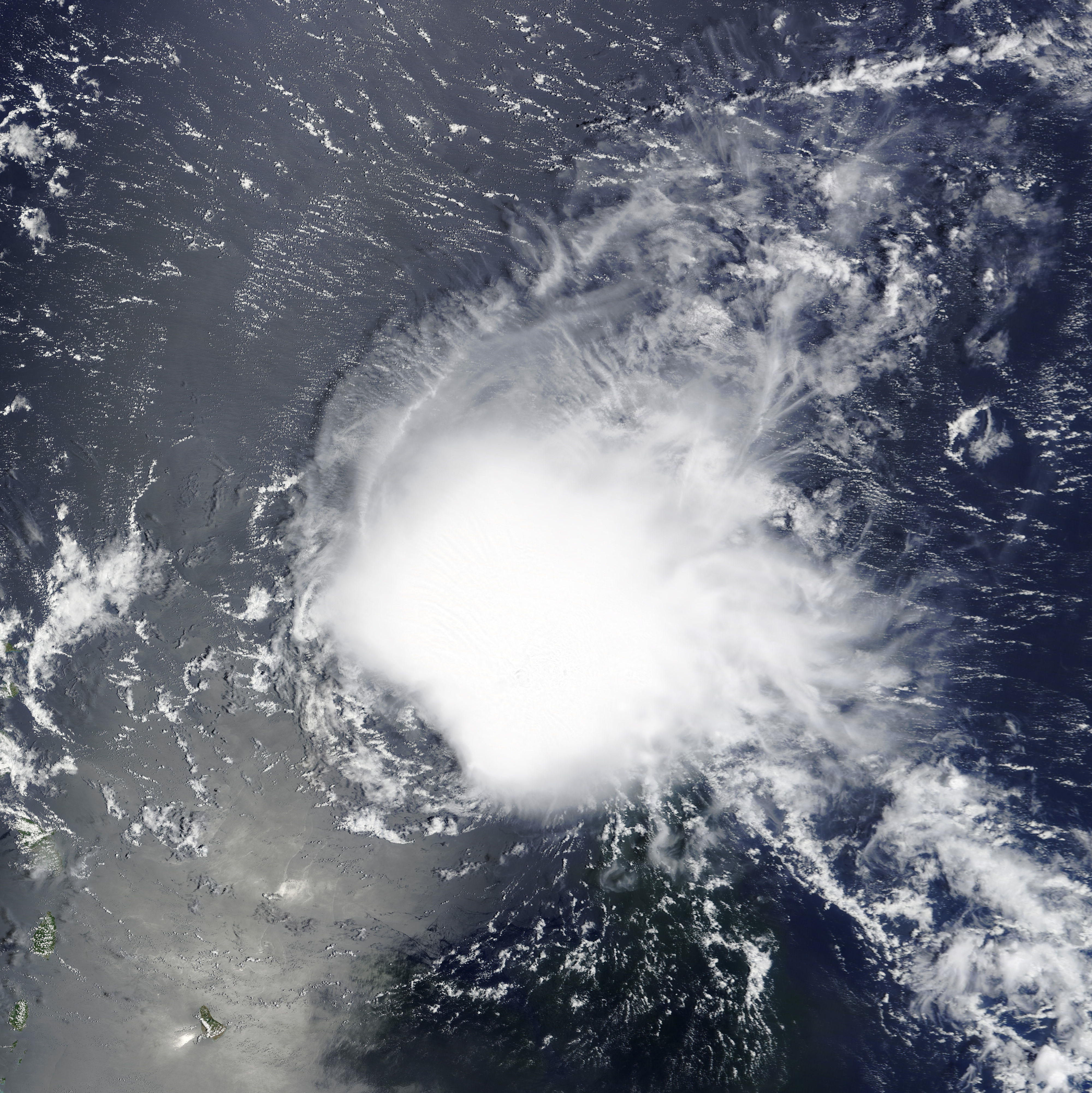 Tropical Storm Danny (04L) in the Atlantic Ocean